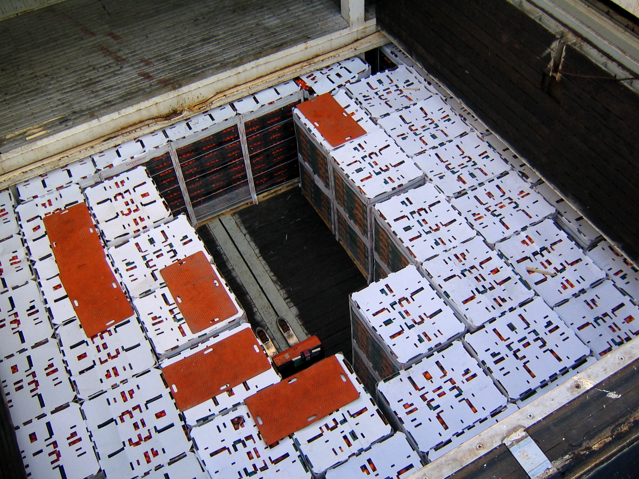 Paletts of fruits loaded on a reefer vessel.